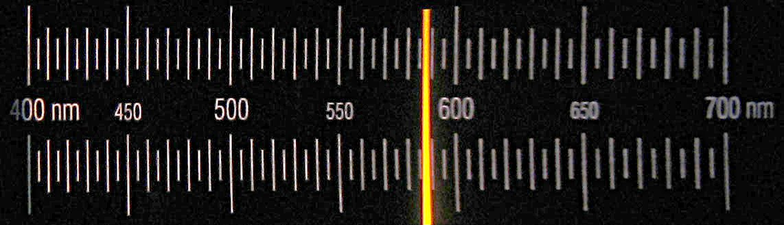 Spectroscope photo showing the Sodium-D-Lines at 589nm.